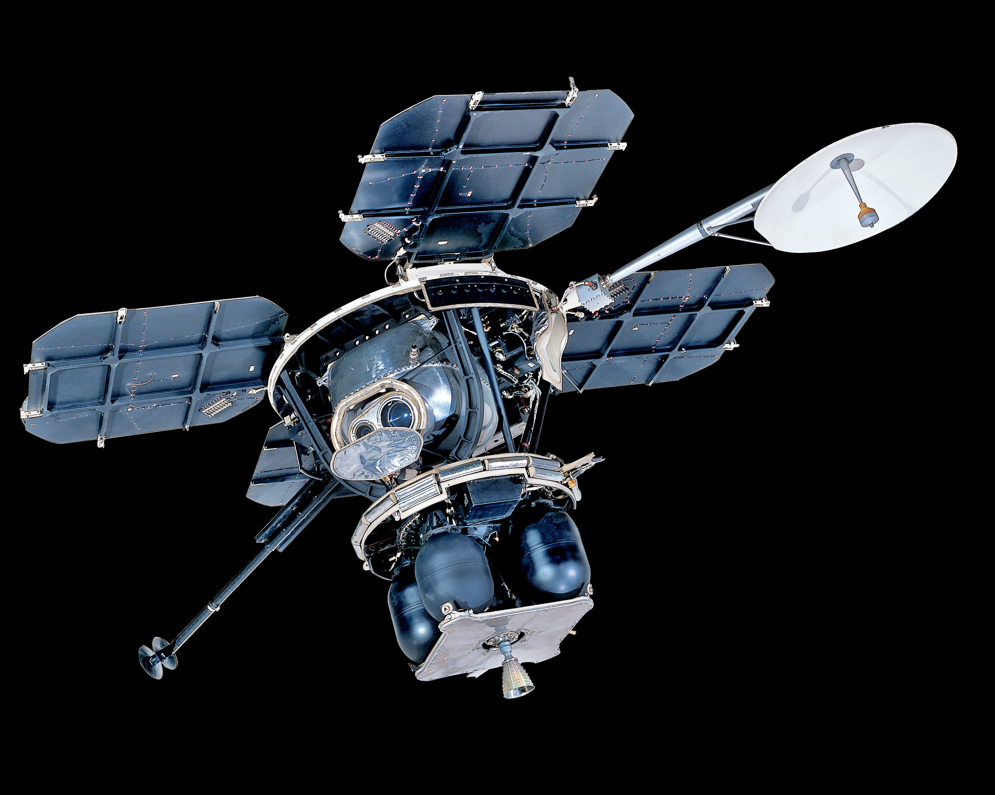 Engineering Mock-up of a Lunar Orbiter space probe